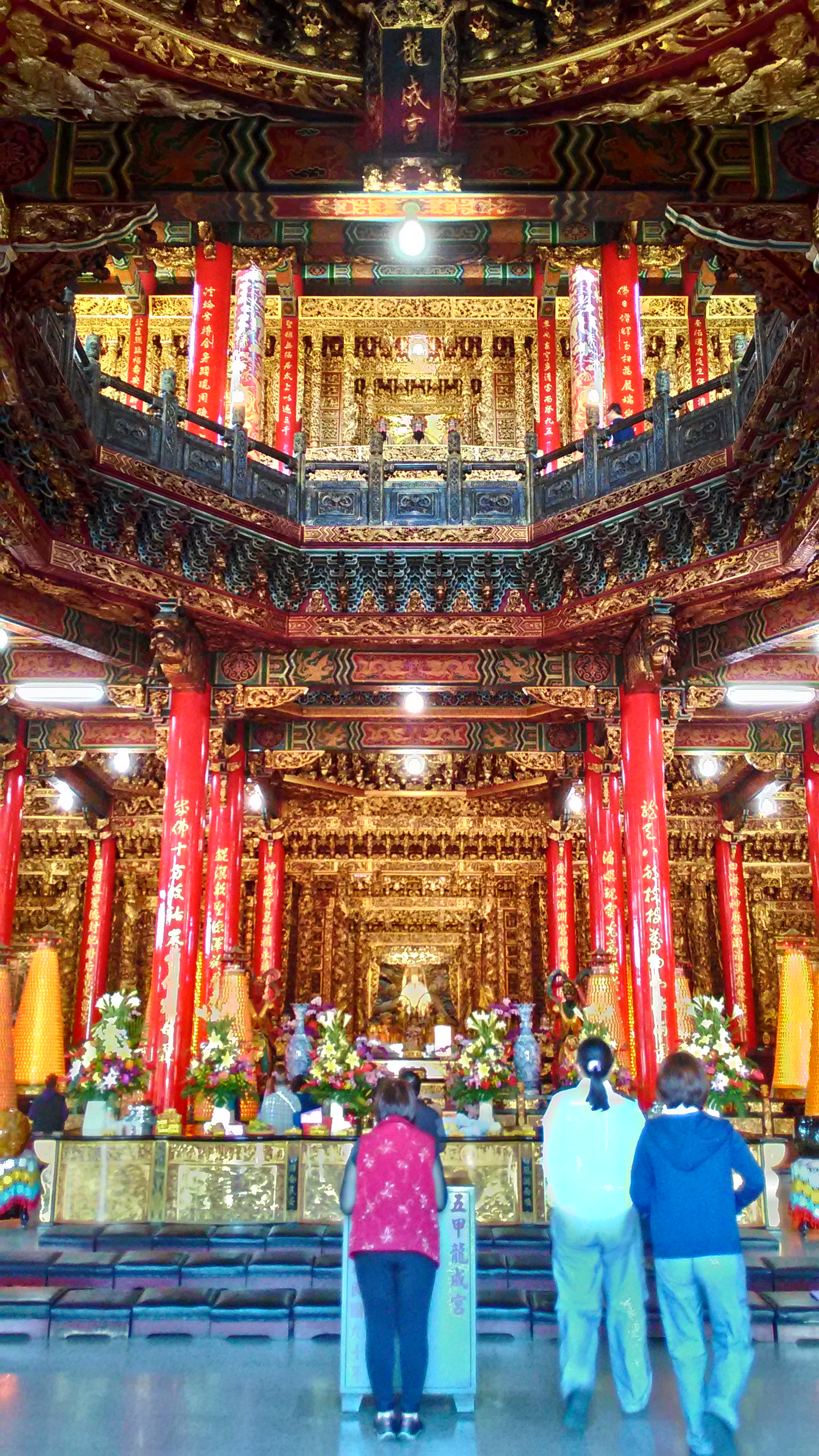 五甲龍成宮內